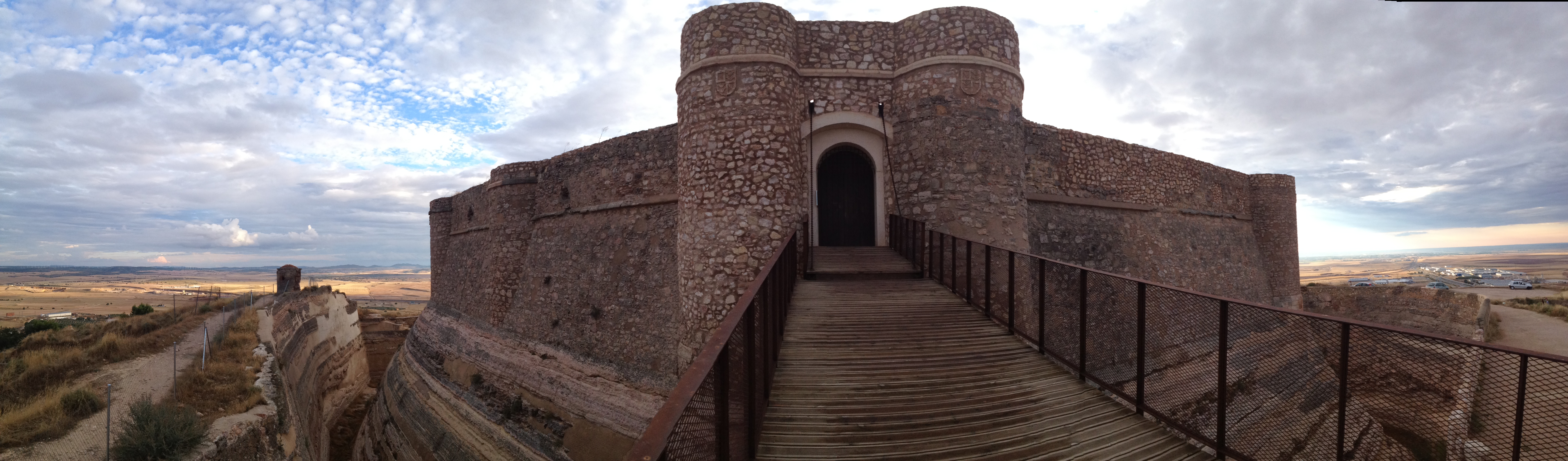 Chinchilla Castle, Albacete, Spain